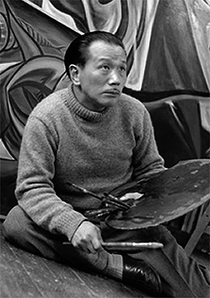 Tarō Okamoto (1911–96)